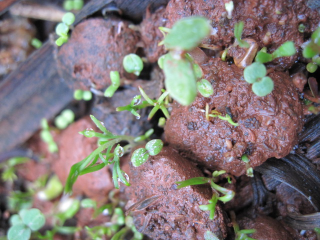 A picture of a sprouted seedball.